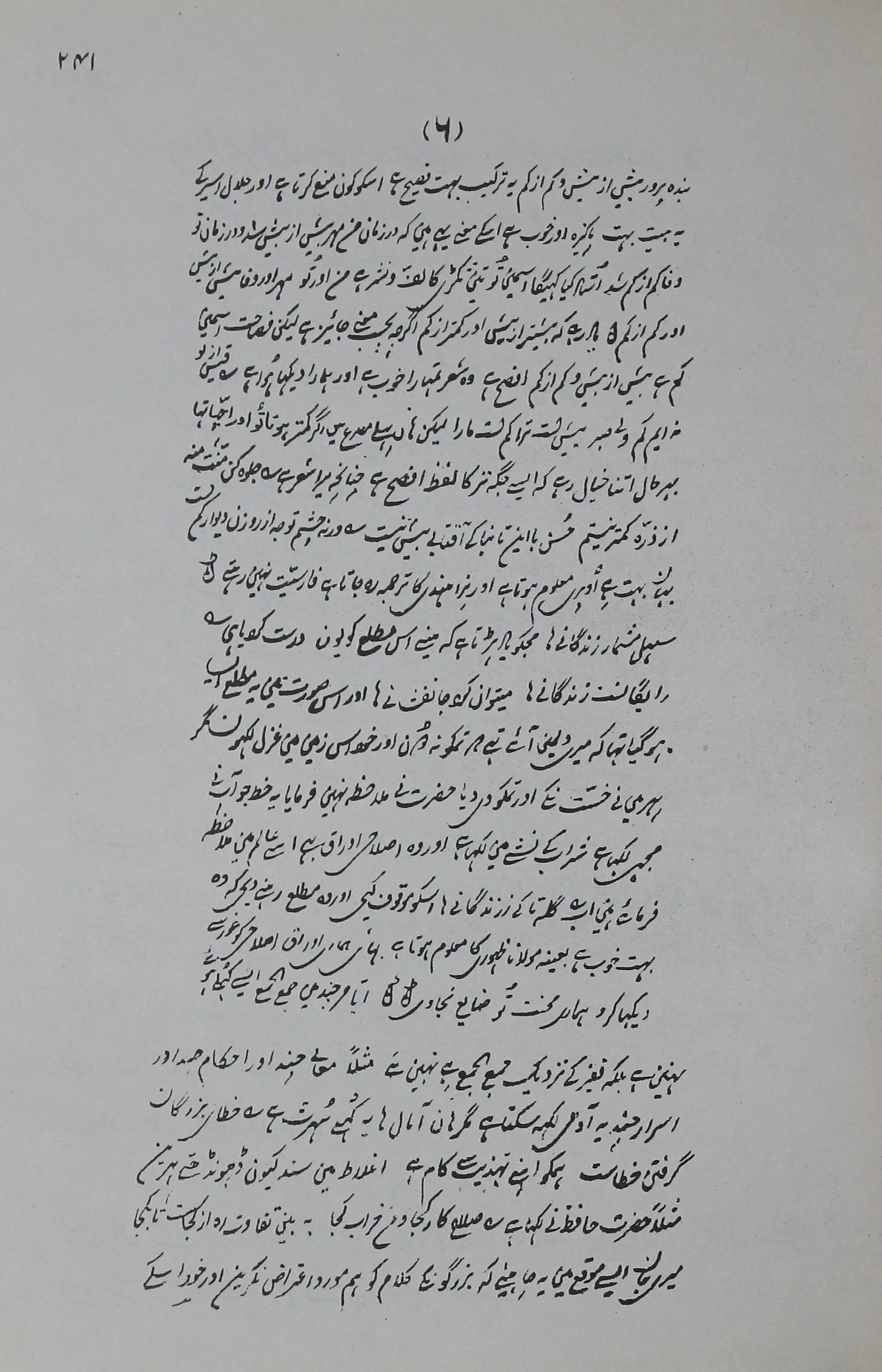 A portion of Ghalib's letter to his pupil, Munshi Hargopal Tafta ( in Ghalib's own hand)